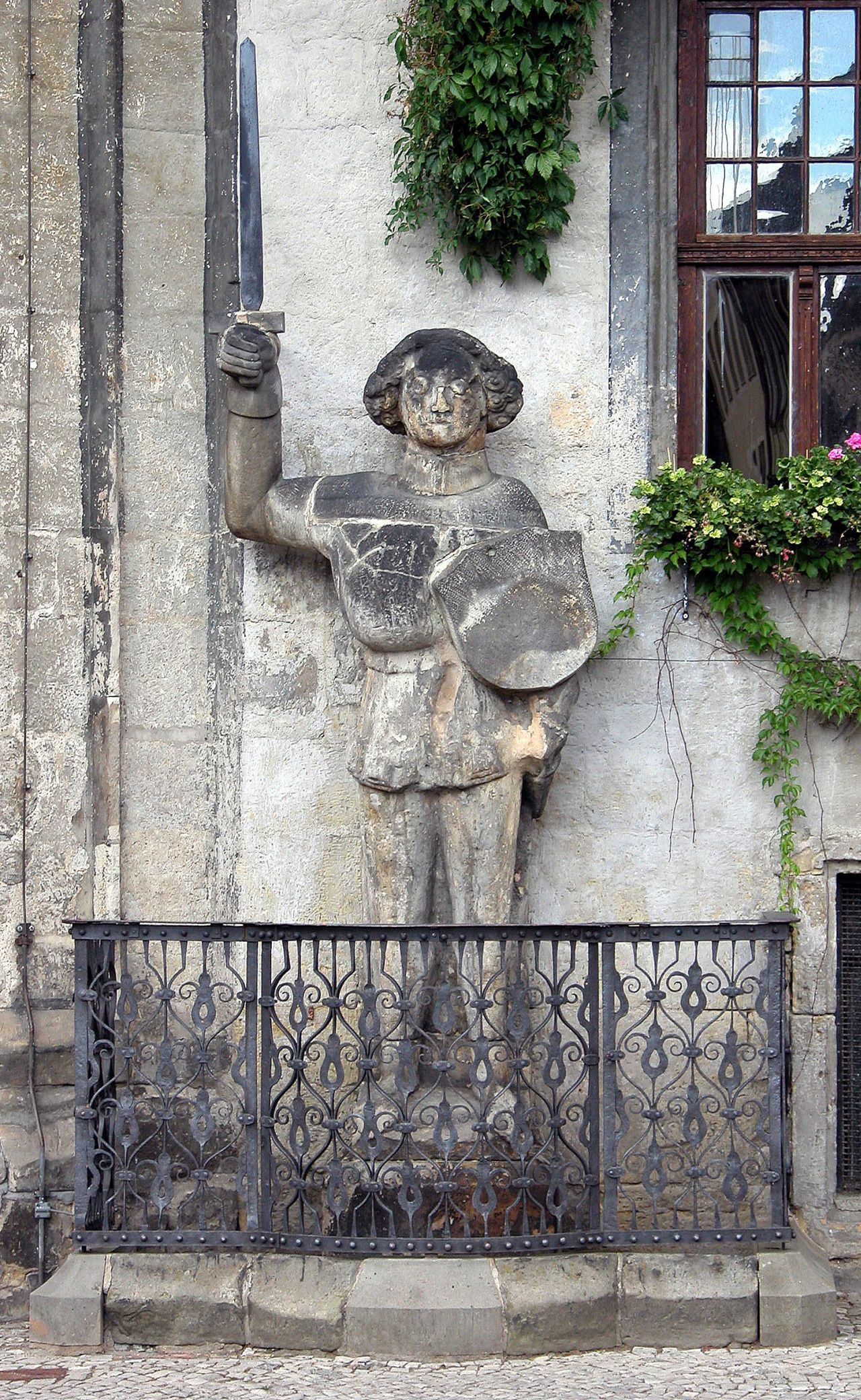 Quedlinburg: Roland. Quedlinburg, Germany: statue of Roland.